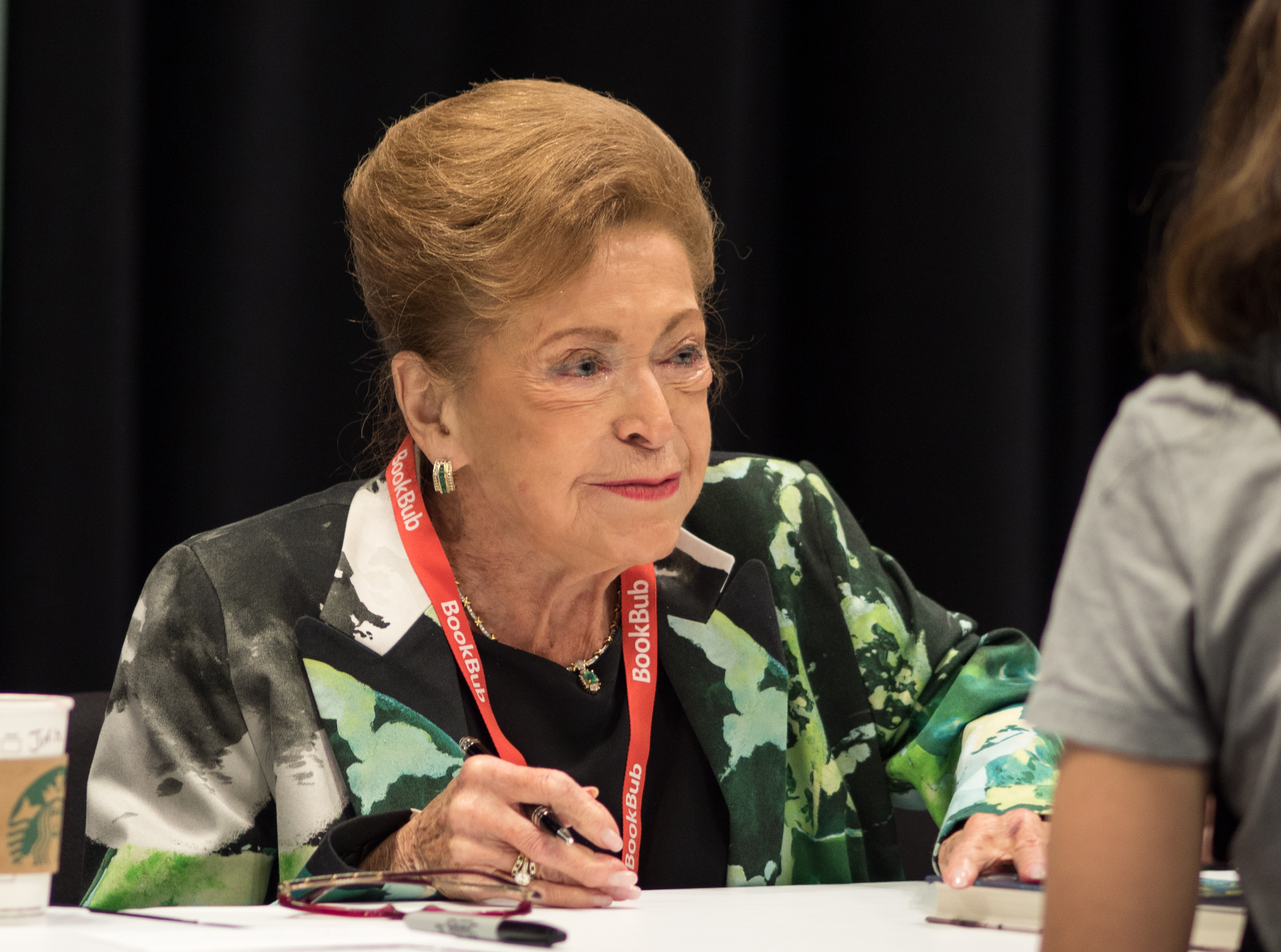 Mary Higgins Clark BookExpo America 2018 at the Javits Convention Center in New York City.